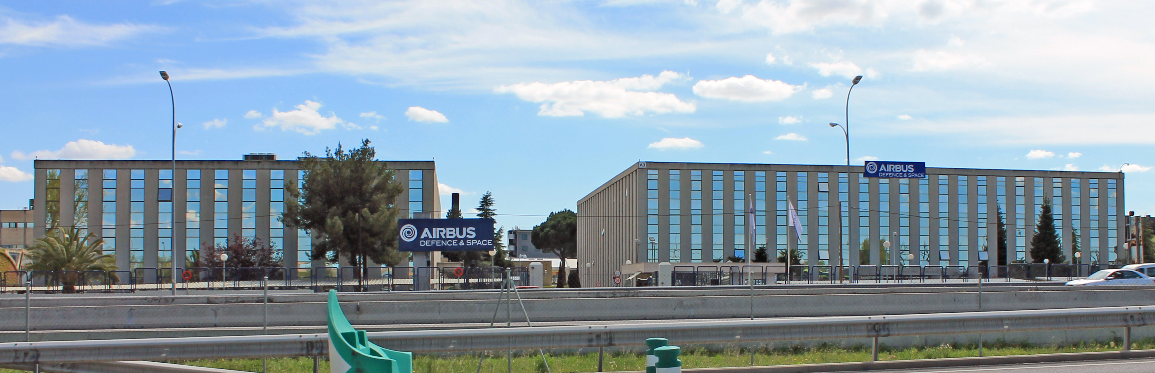 Offices of Airbus Defence and Space at 404 Avenida de Aragón (avenue) in Madrid (Spain).